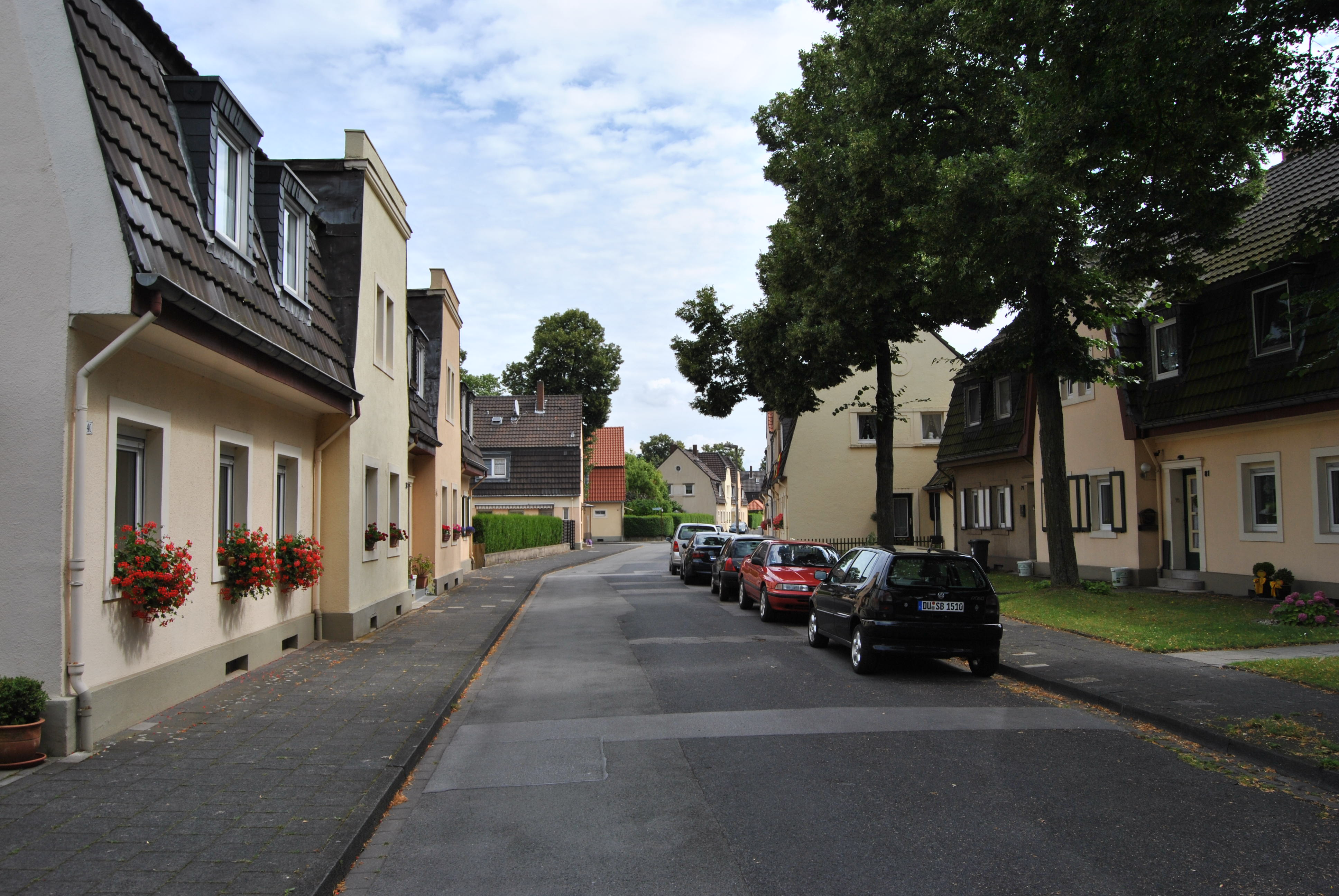 This photograph was taken with a Nikon D3000 This image shows a heritage building in Germany, located in the North Rhine-Westphalian city Duisburg.